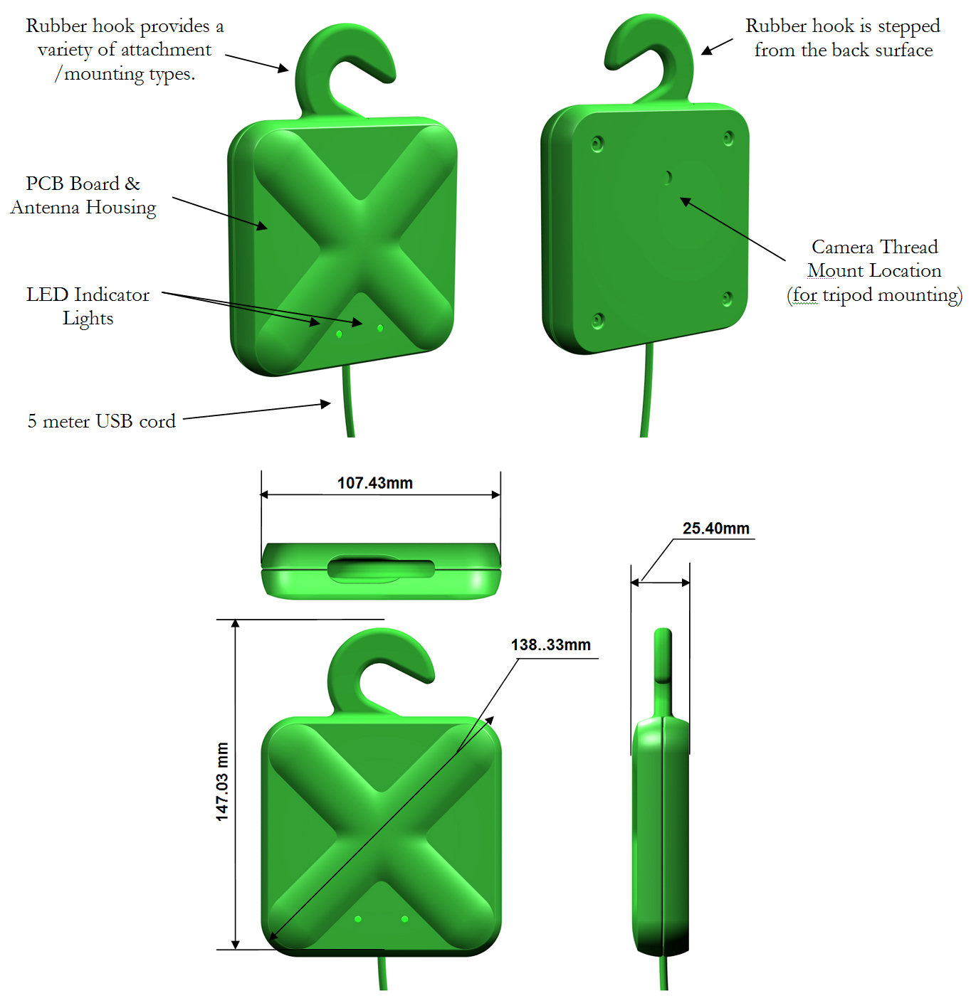 OLPC: Active antenna for OLPC-Server